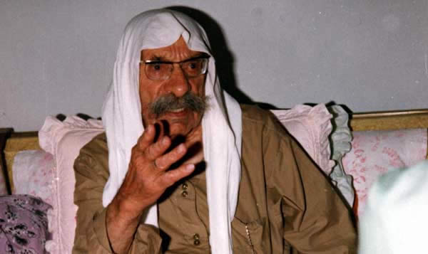 A rare photograph of Sultan Pasha al-Atrash at 97, commander of the Syrian Revolt of 1925-1927, at his home in Qraya (Druze Mountain) before his death in 1982.